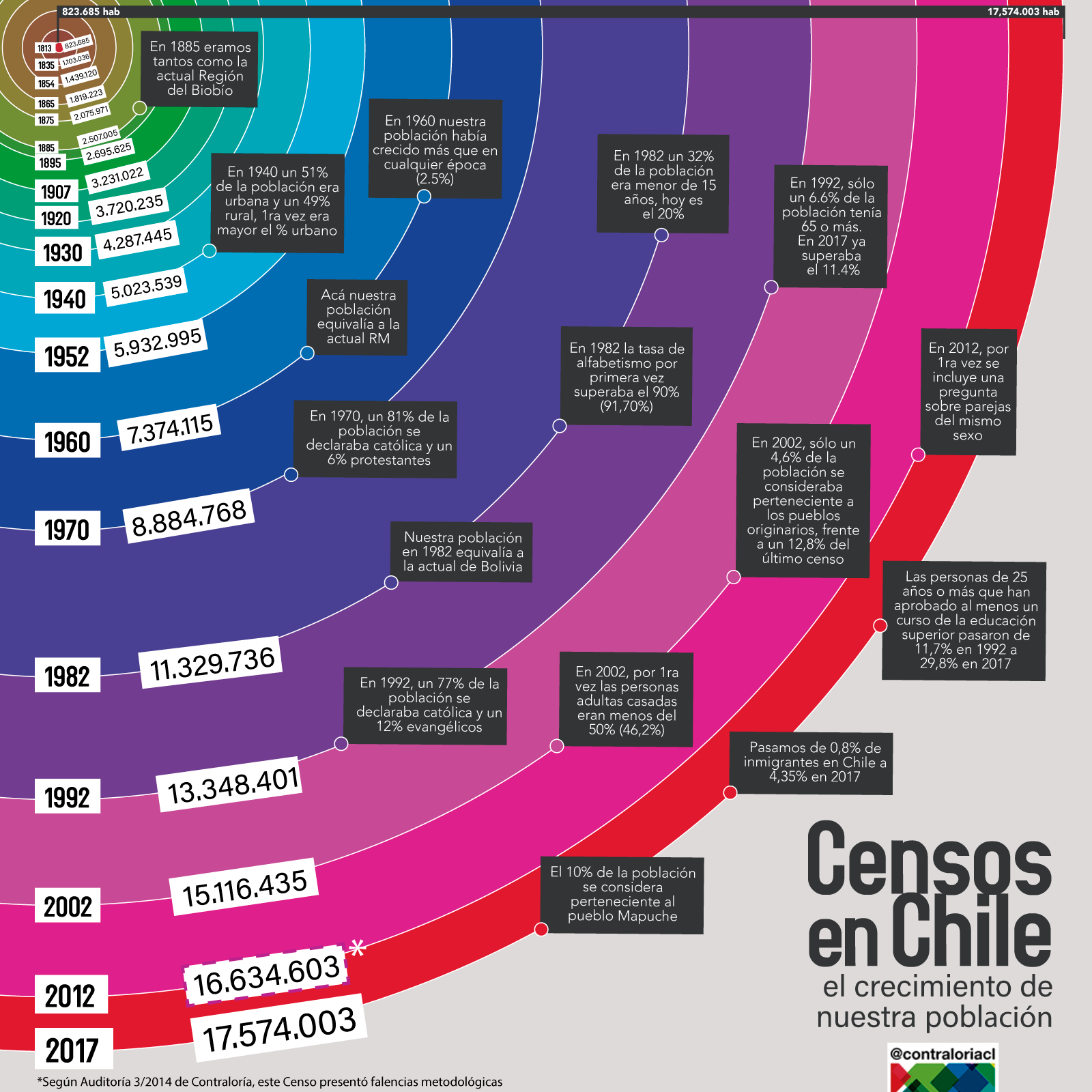 census of chile